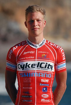 ChristianBertilsson2